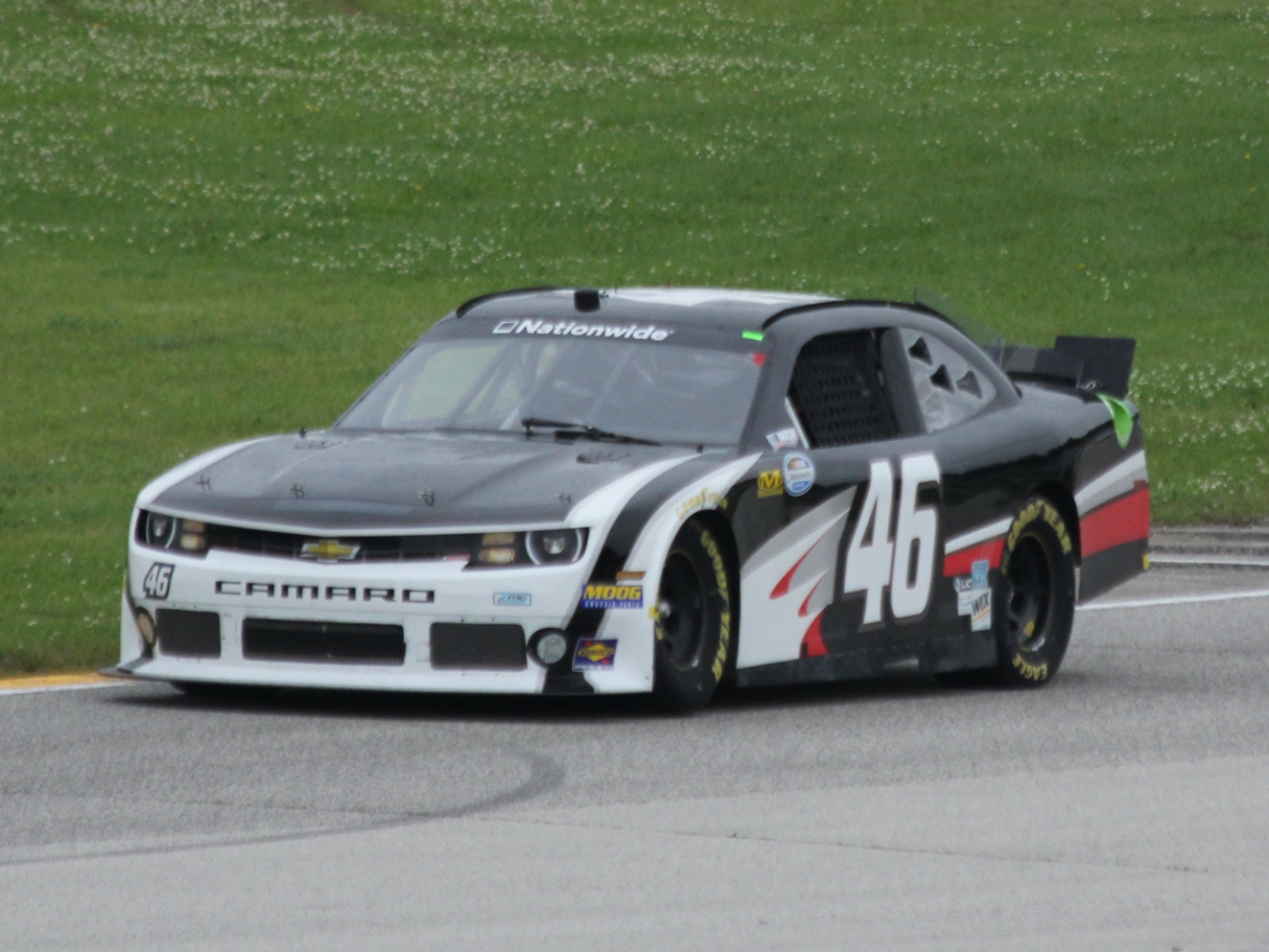 The drivers side of Ryan Ellis (racing driver) Nationwide car during the 2014 Gardner Denver 200 at Road America. Taken racing up the hill between turns 5 and 6.